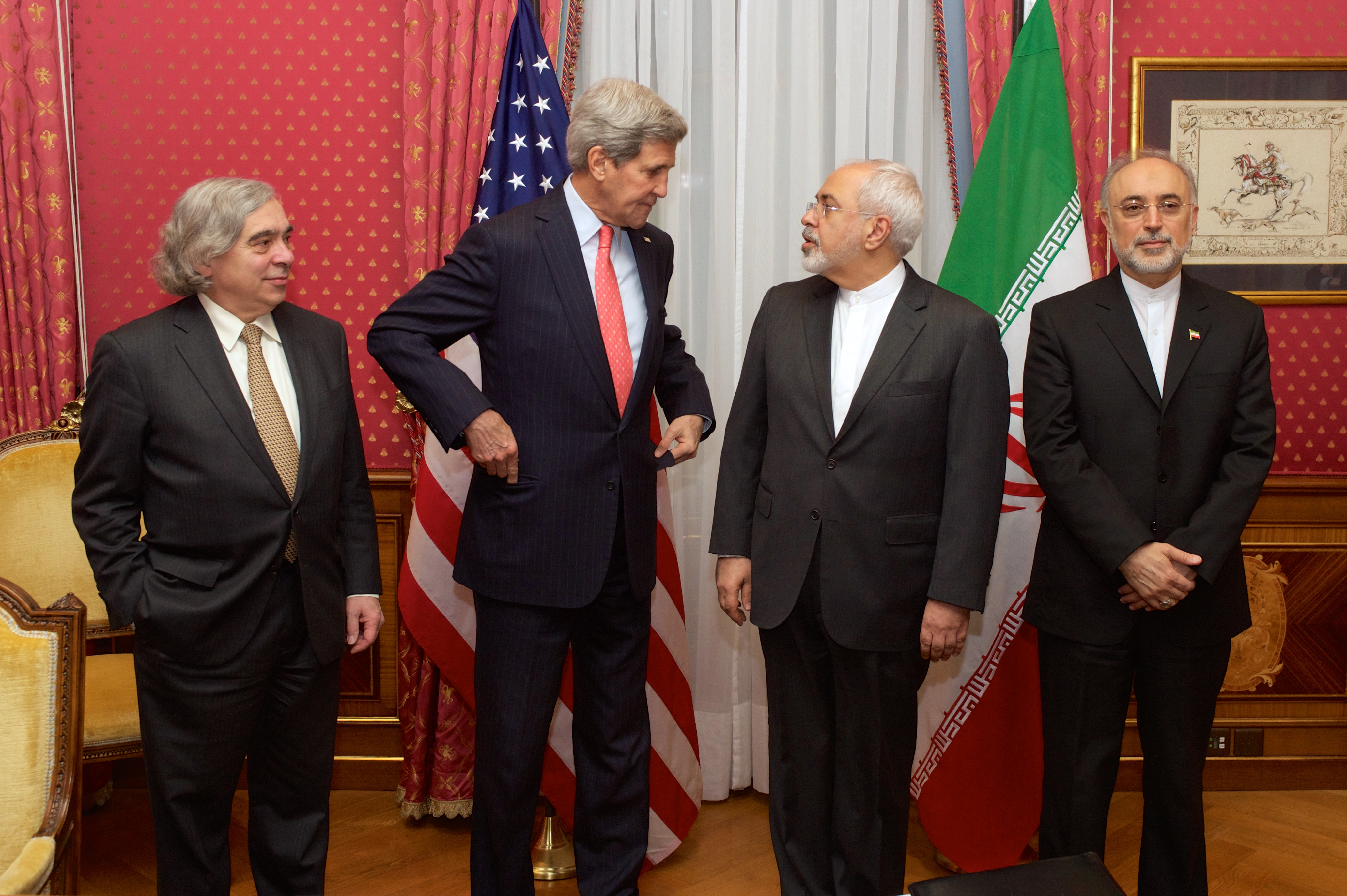 From left to right: the United States Secretary of Energy Ernest Moniz, the United States Secretary of State John Kerry, the Iranian Foreign Minister Mohammad Javad Zarif and the head of the Atomic Energy Organization of Iran Ali Akbar Salehi, in the "Salon Élysée" of the Beau-Rivage Palace (Lausanne, Switzerland) on 16 March 2015.